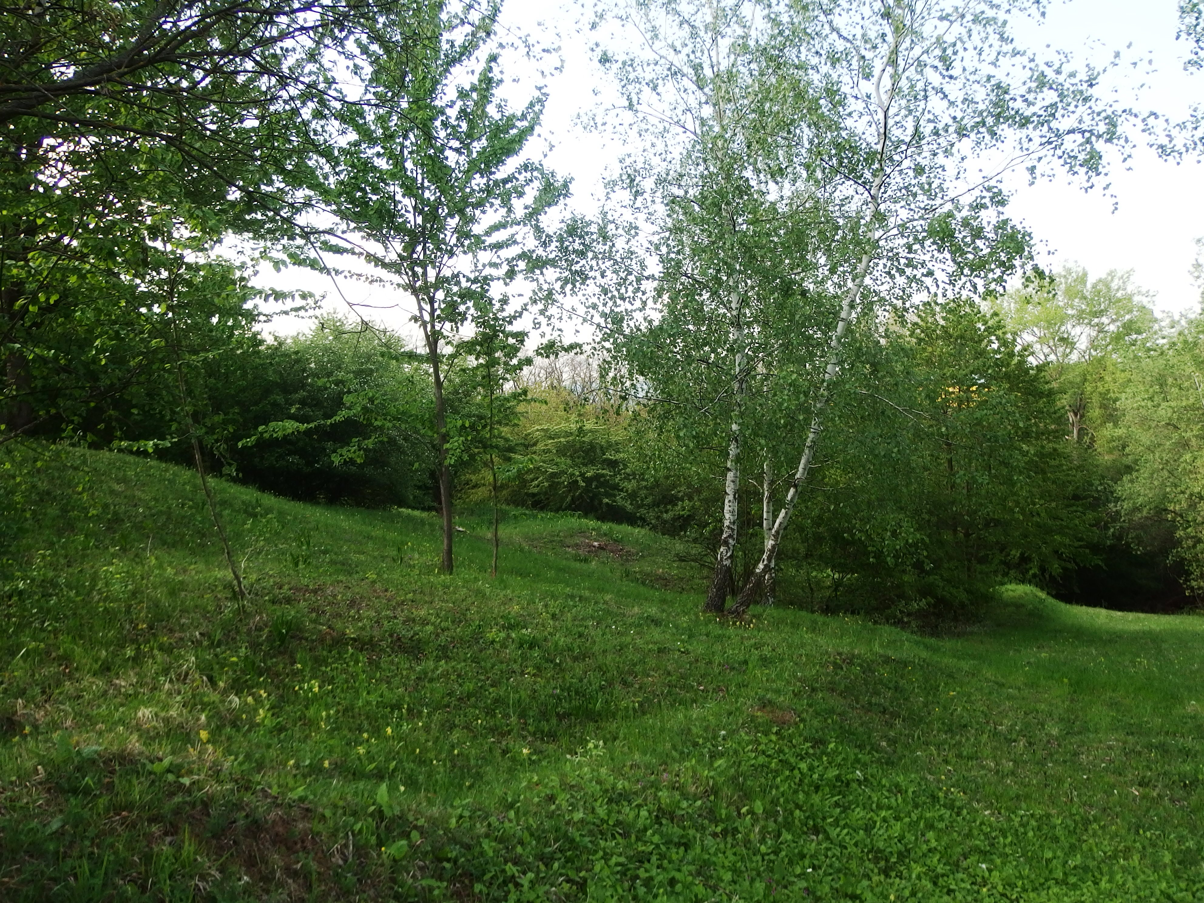 Koukolky, natural monument in Uherské Hradiště District, Czech Republic.